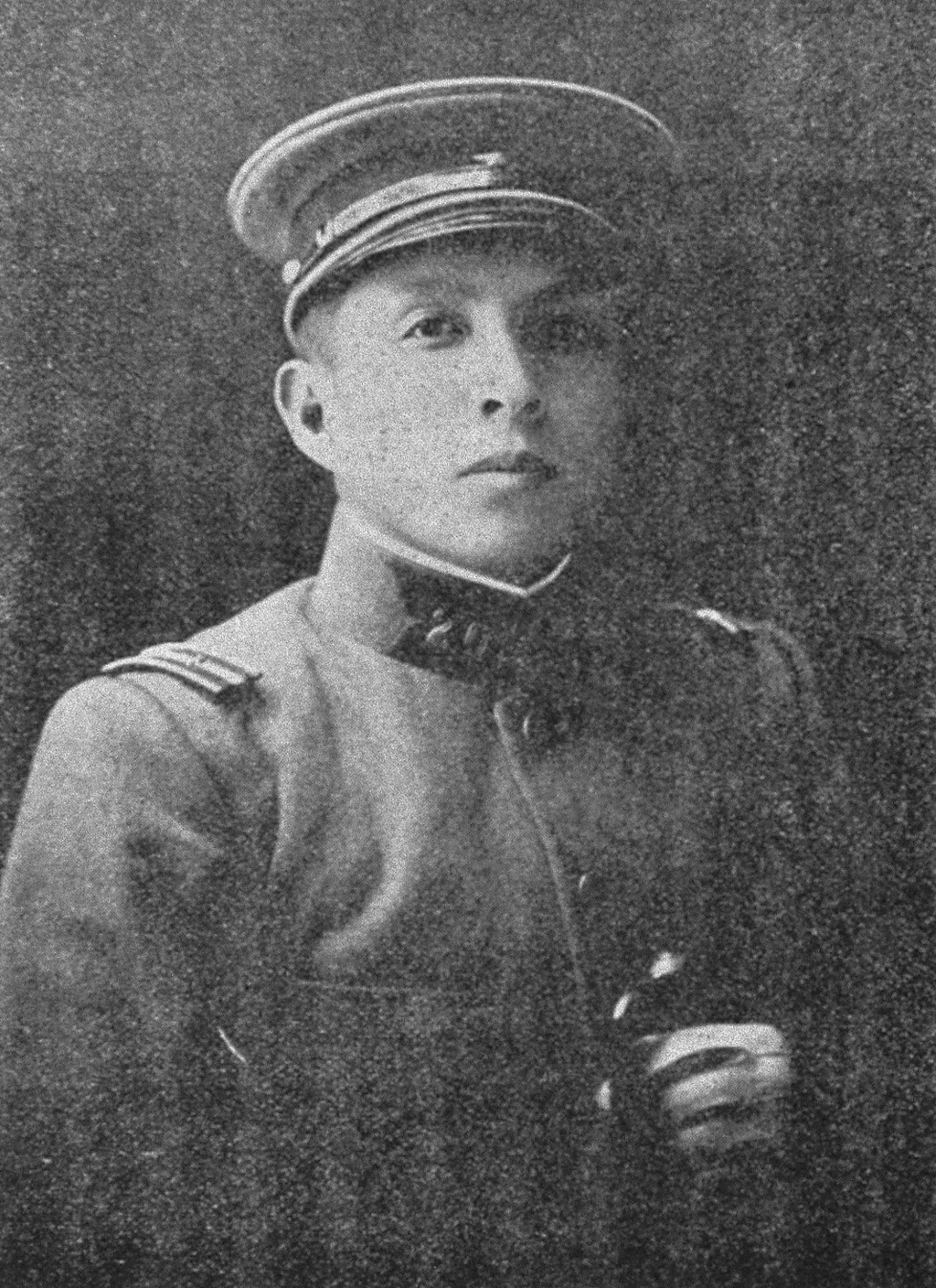 Portrait of Shigematsu Midori (重松翠, 1887 – 1914)